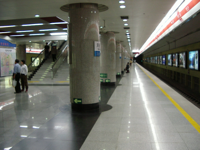 Inside a Beijing Subway station.